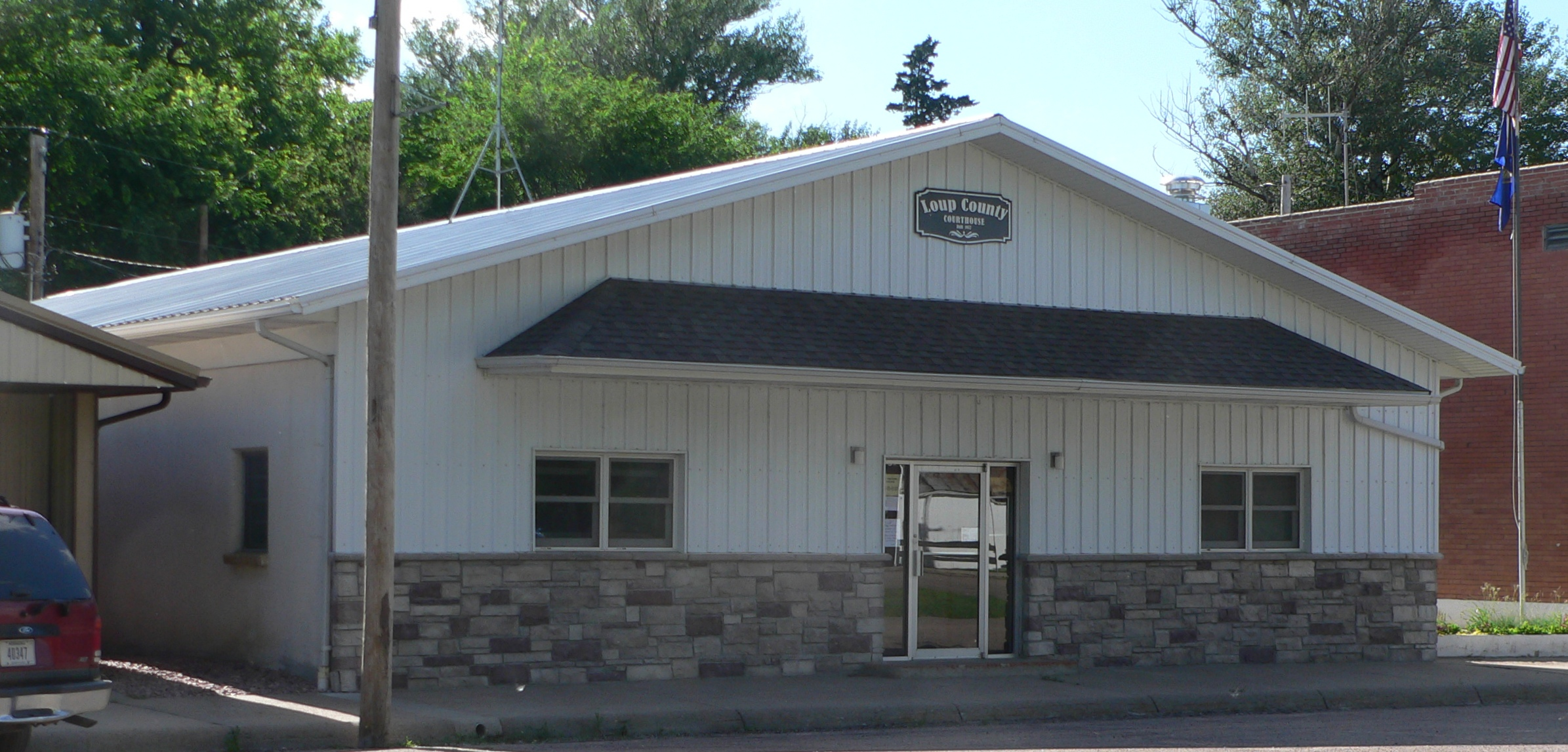 Loup County courthouse in Taylor, Nebraska; seen from the southeast.